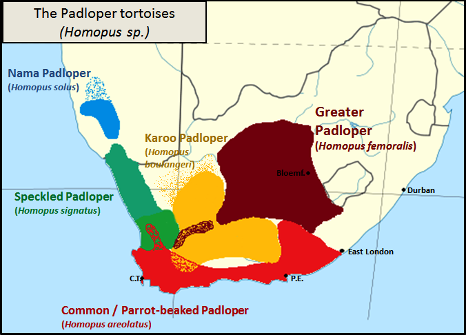 Map of the distribution ranges of Padloper tortoises in Southern Africa. Genus Homopus. Own work. Information from Cape Nature as well as SANBI and the Homopus Research Foundation.